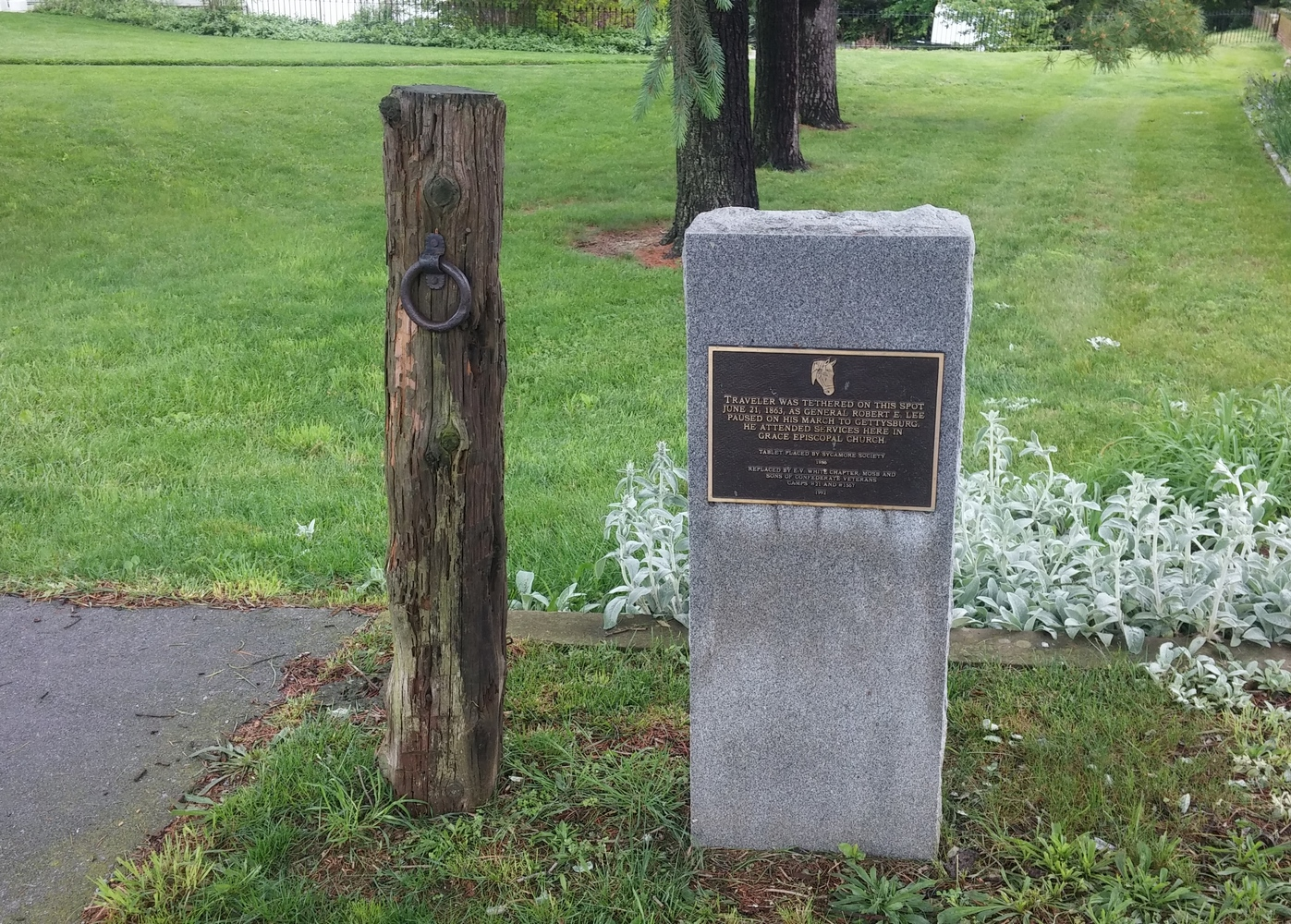 Traveler was tethered at this spot June 21, 1863